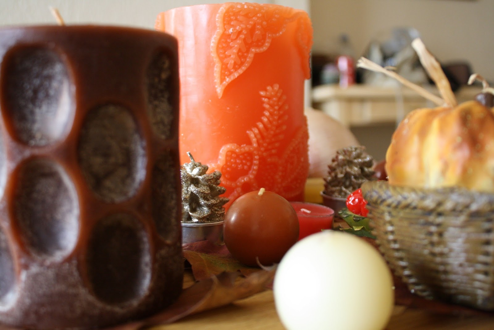 Collection of modern synthetic candles